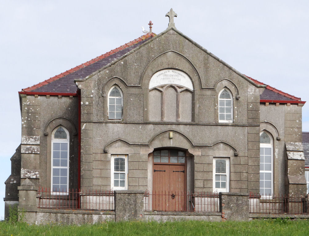 Welsh Baptist Chapel, Rhydwyn, Isle of Anglesey, Wales